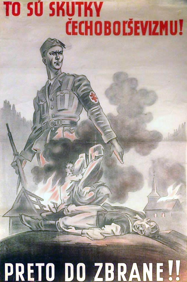 Propganda paper of the Hlinka Guard during the Slovak National Uprising 1944.